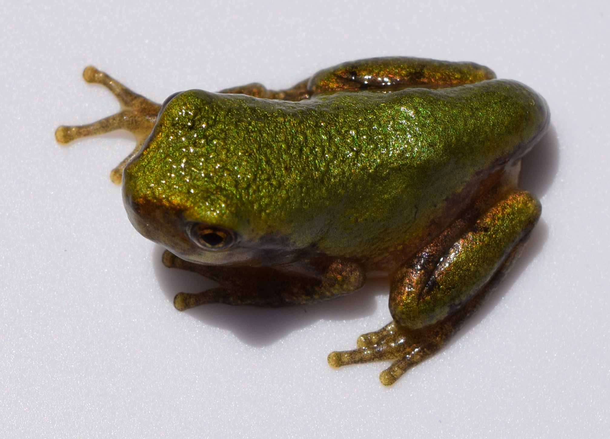 A Hyla chrysoscelis (Cope's gray treefrog) metamorph at the University of Mississippi Field Station.